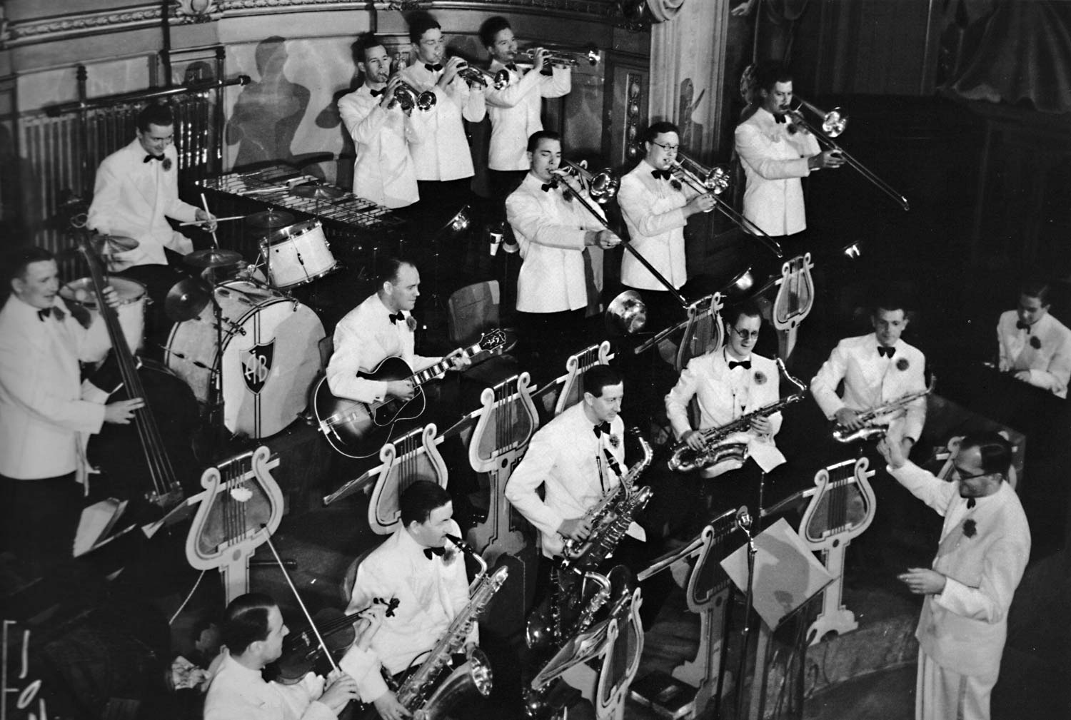 Håkan von Eichwald Orchestra. Playing at Fenix-Kronprinsen, Stockholm, autumn 1938